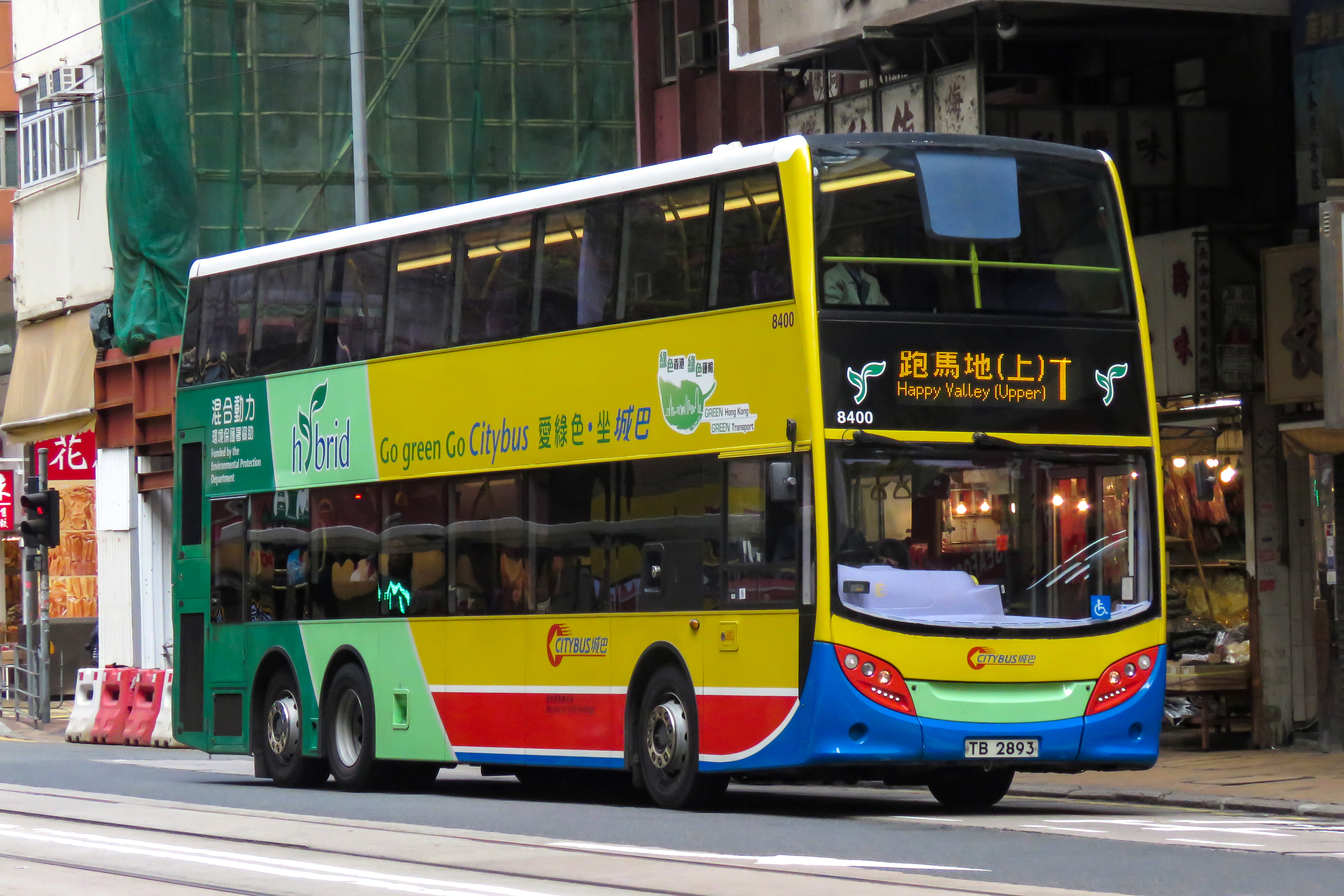 Here comes the hybrid E500MMC!